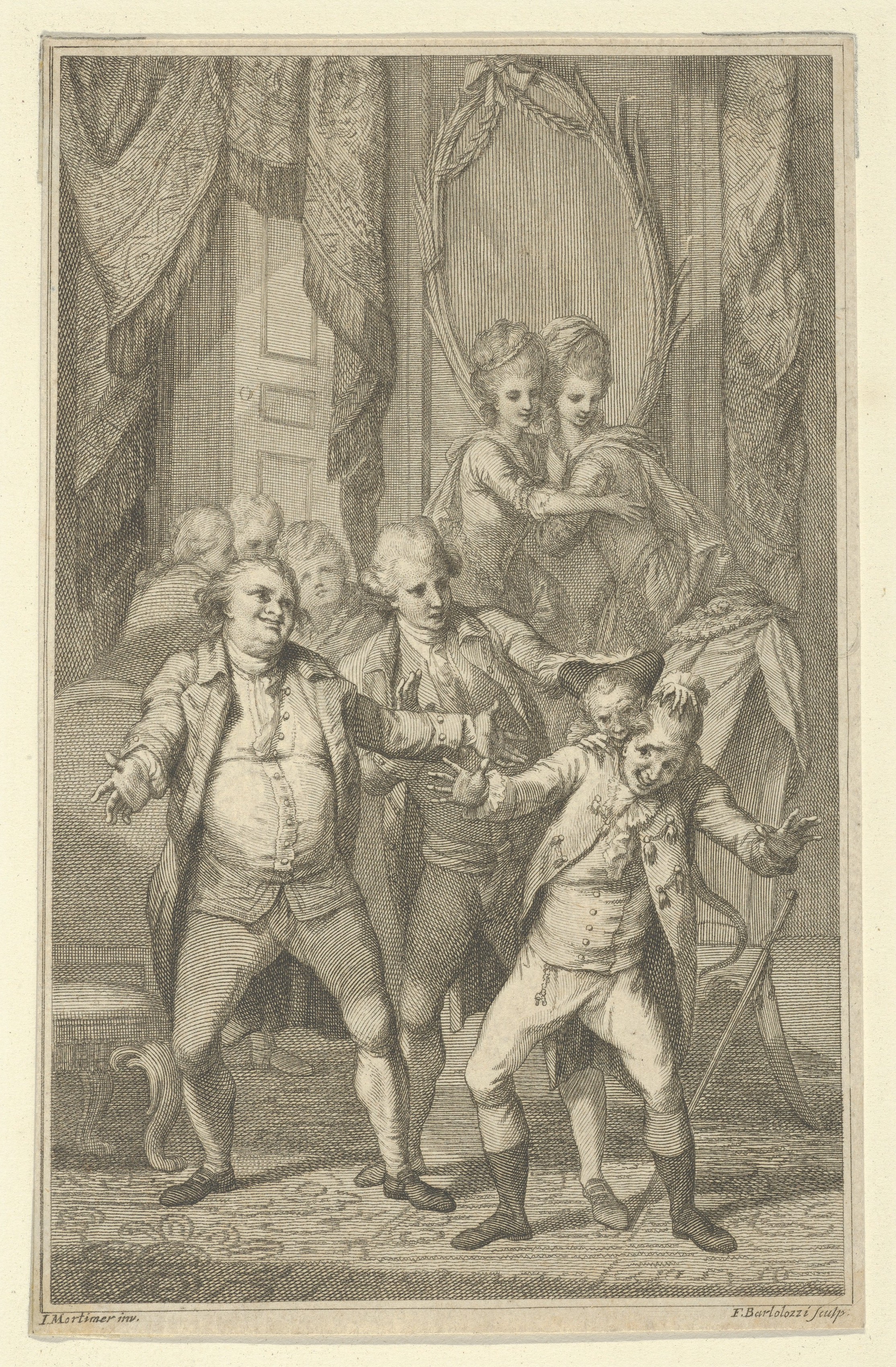 Print; Prints